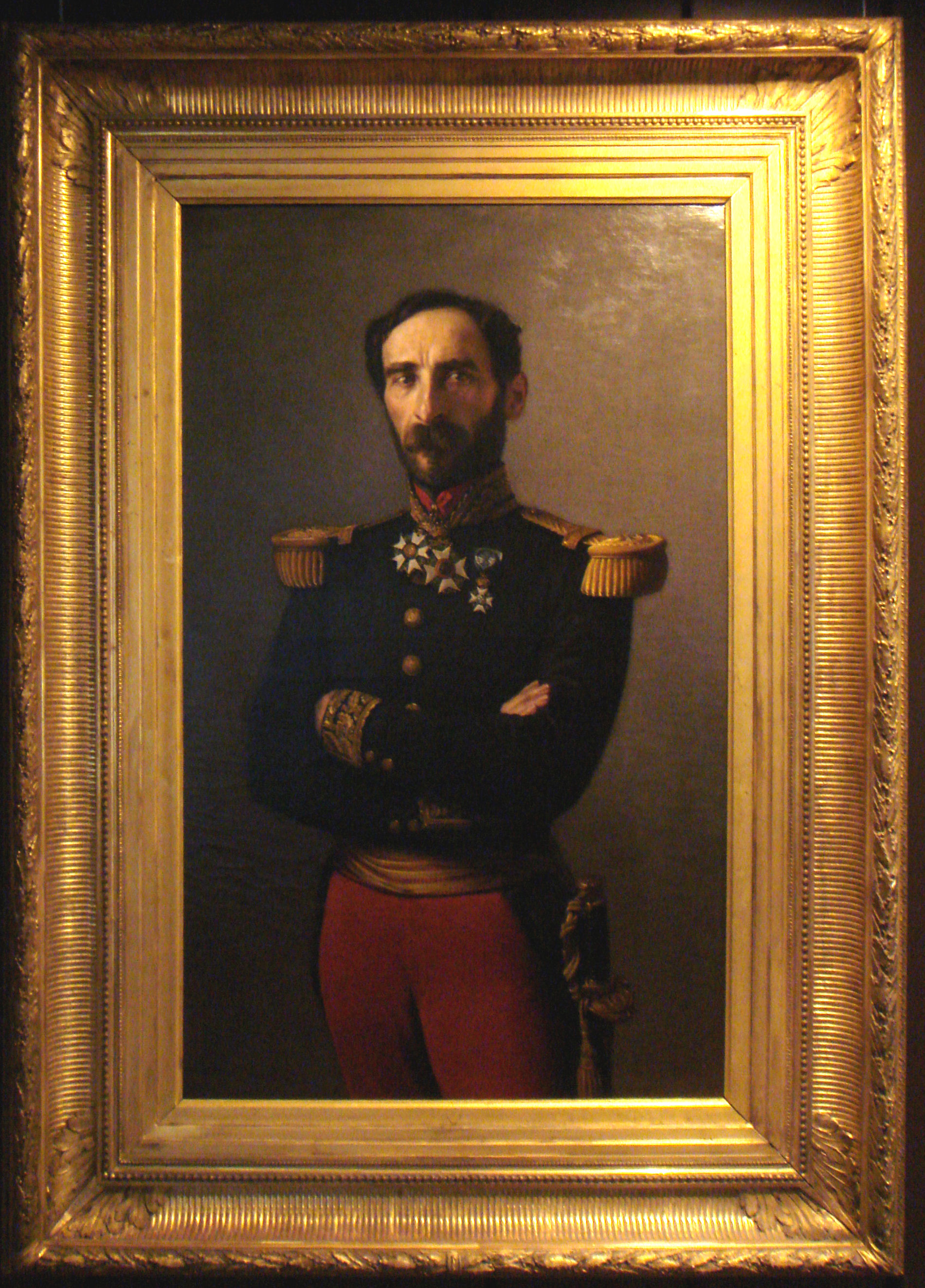 Cavaignac_in_1848_by_Jean_Baptiste_Lafosse_1810_1879